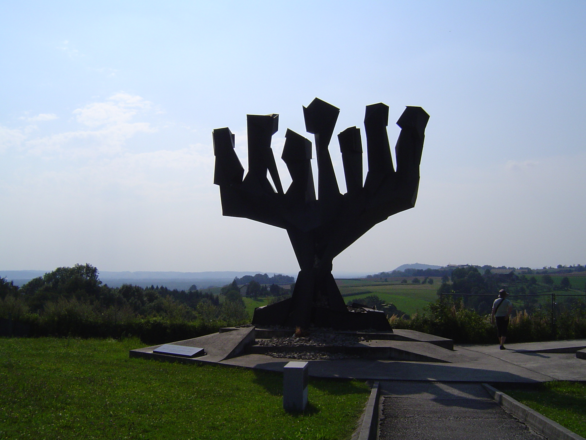 Jewish Memorial at the Concentration Camp in Mauthausen.